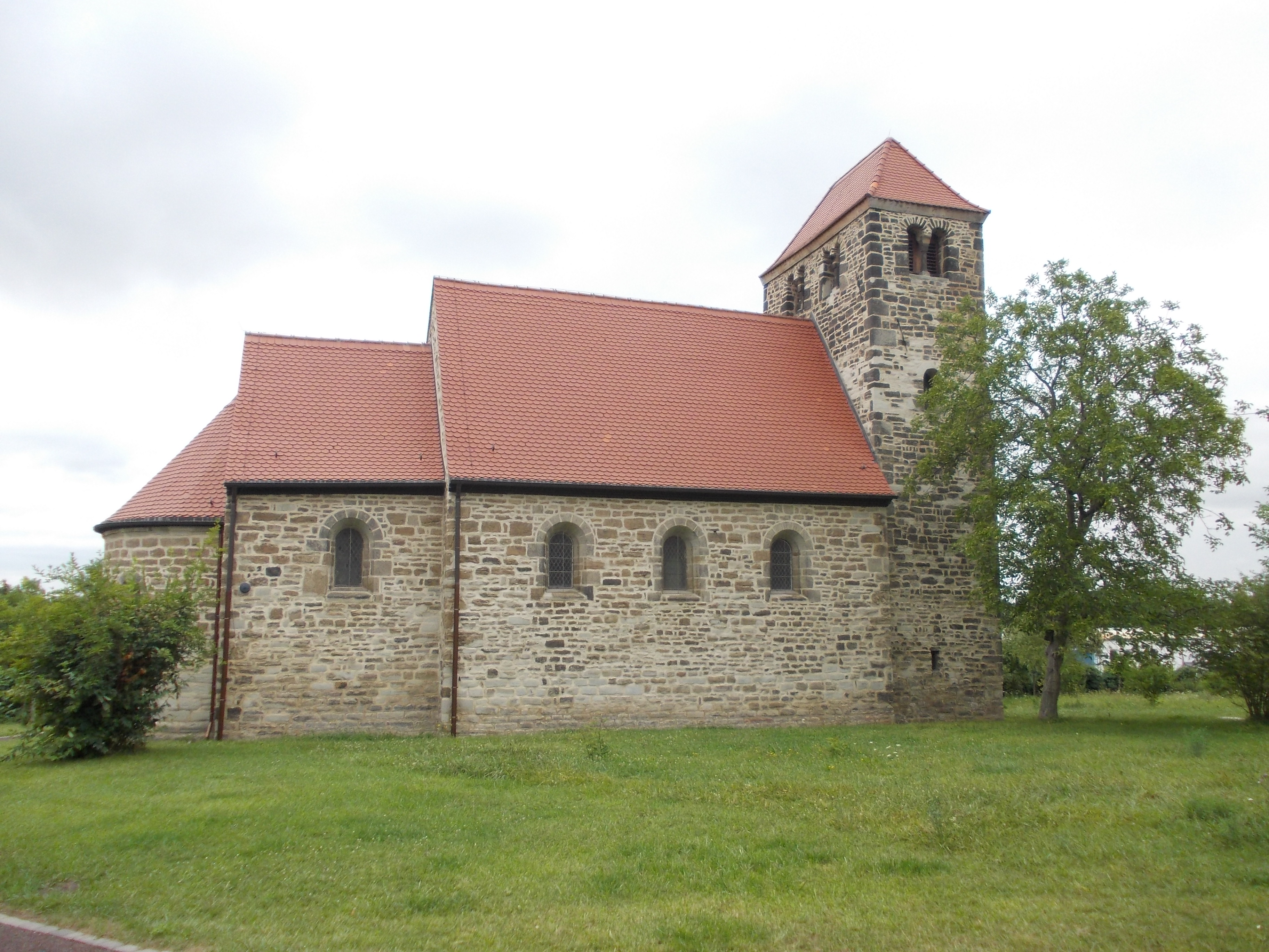 St. Stephen's Church in Waldau (Bernburg, district: Salzlandkreis, Saxony-Anhalt)